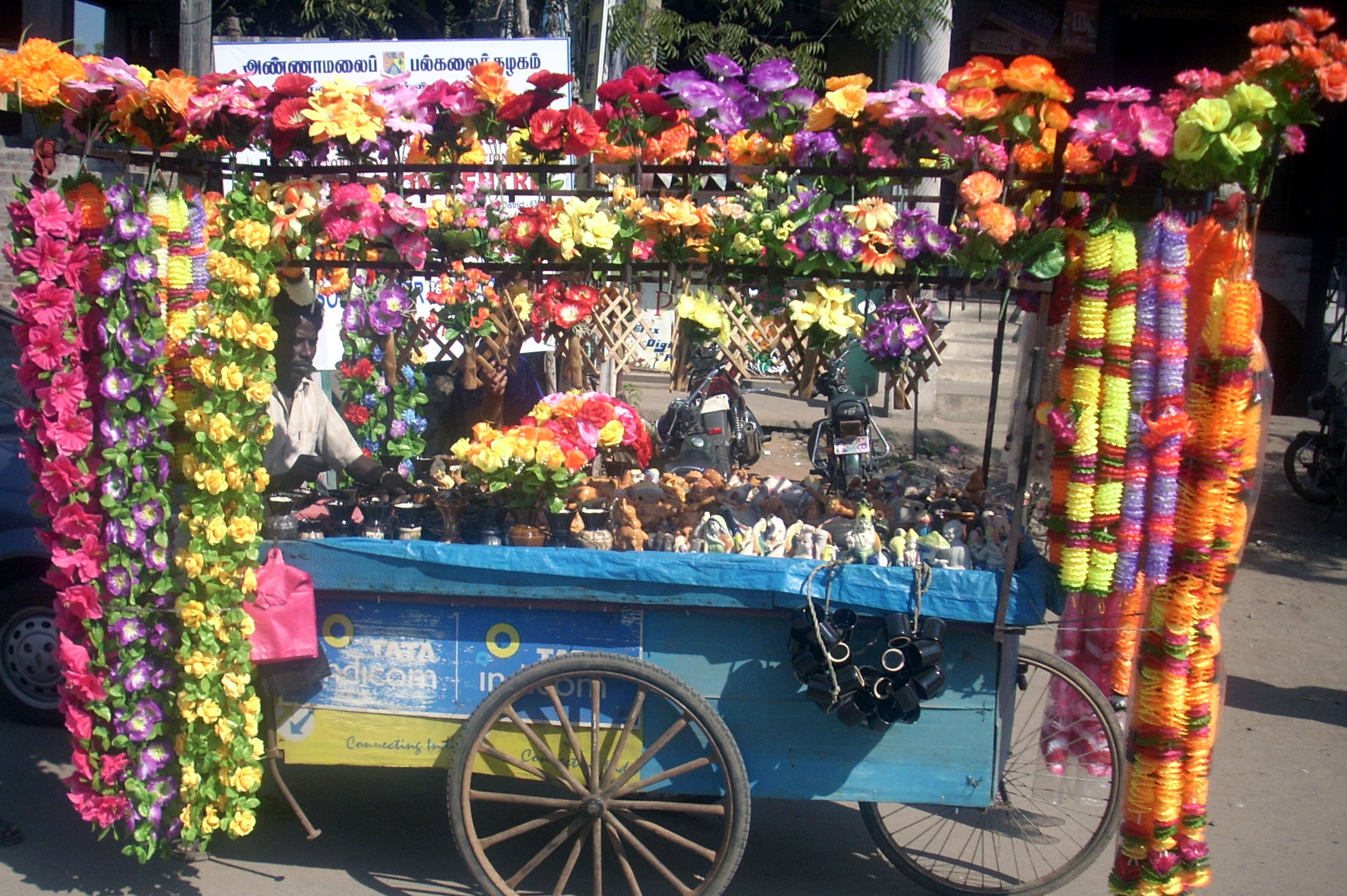 A Plastic flower merchant in Tamil Nadu.